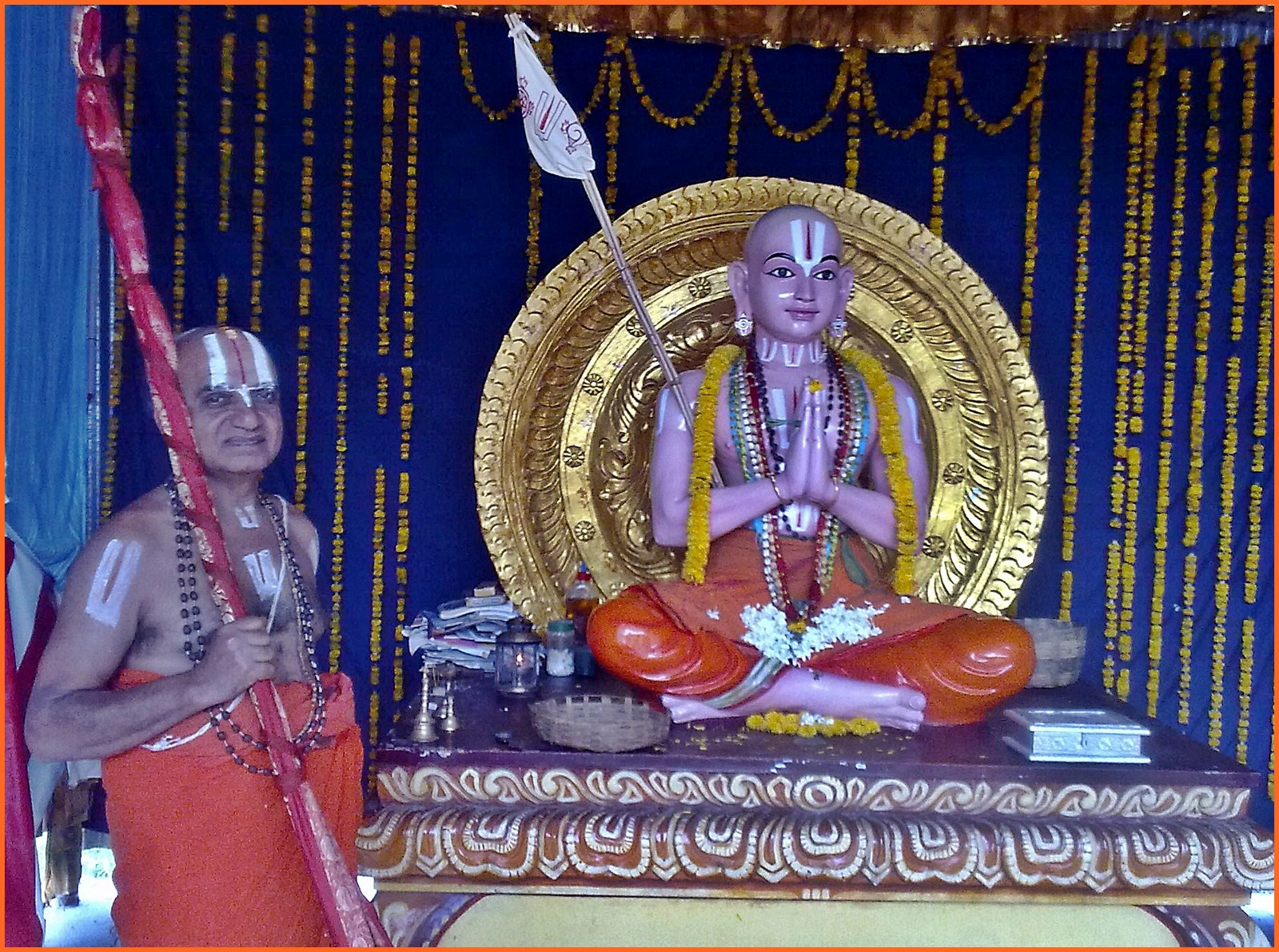 Sri Sri Yadugiri Yathiraja Narayana Ramanuja Jeeyar